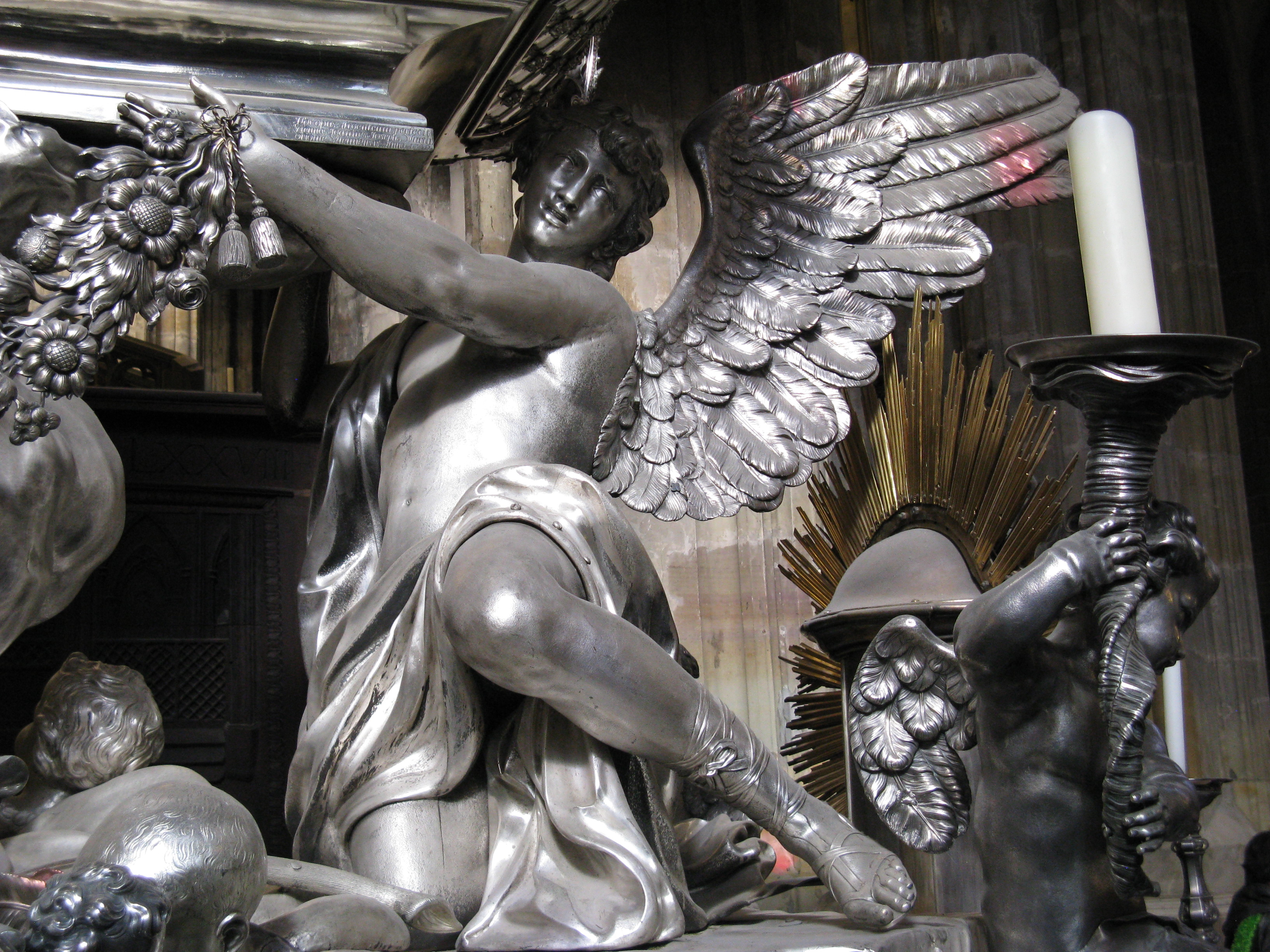 St. John Nepomuk's tomb-Detail.